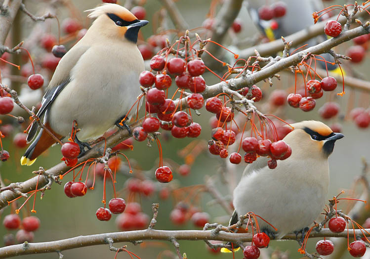 A pair of Bohemian Waxwings Bombycilla garrulus in a crabapple tree, near Boston MA.